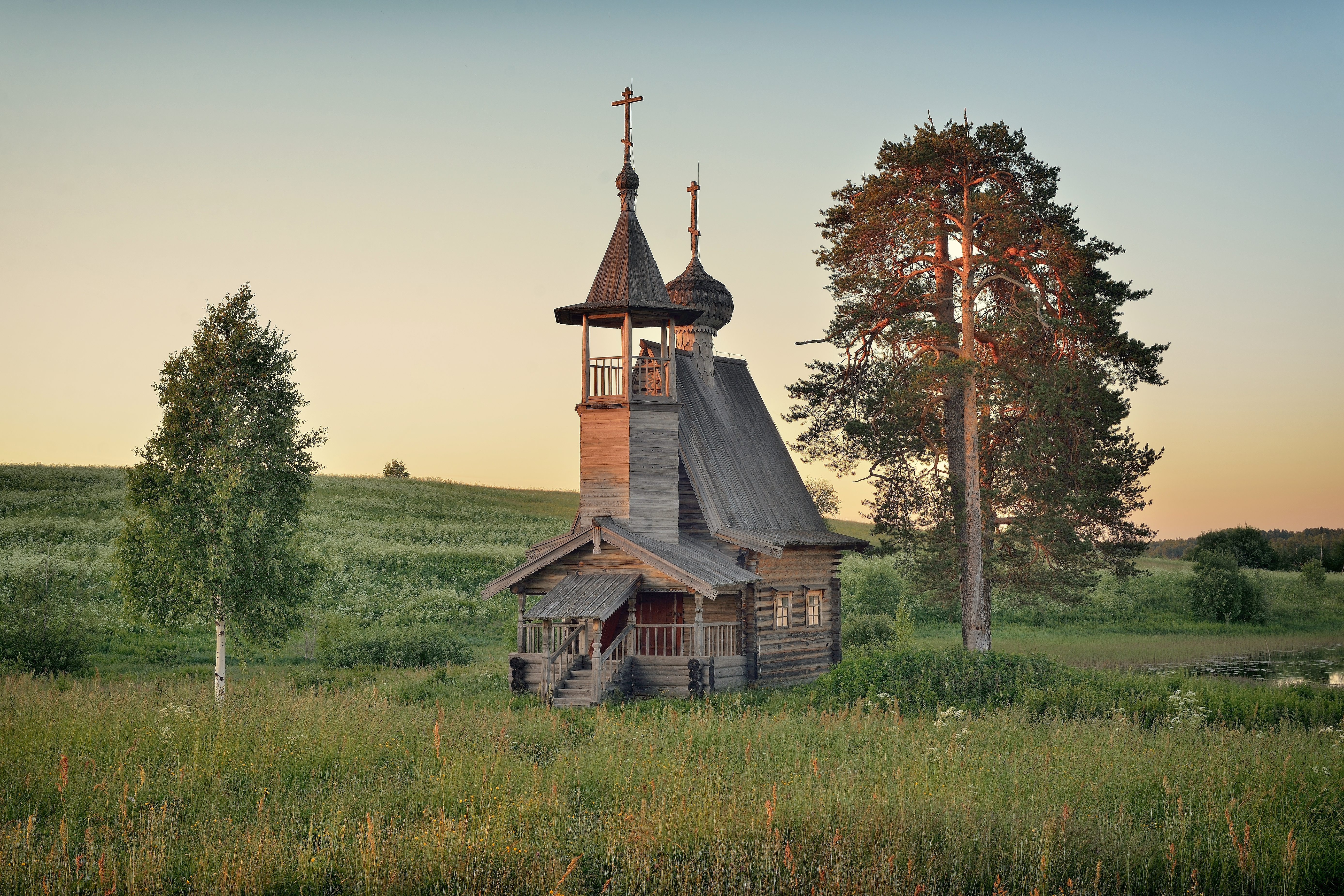 Holy Spirit Chapel in Glazovo, Kenozersky National Park, Arkhangelsk Oblast, Russia